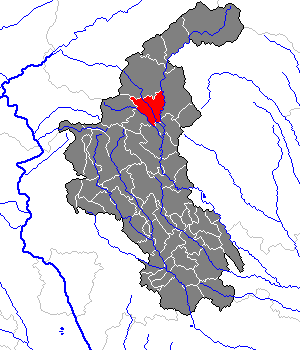 This map shows the area of the Gemeinde (municipality) Waisenegg in the Bezirk (district) Weiz, Styria, Austria.